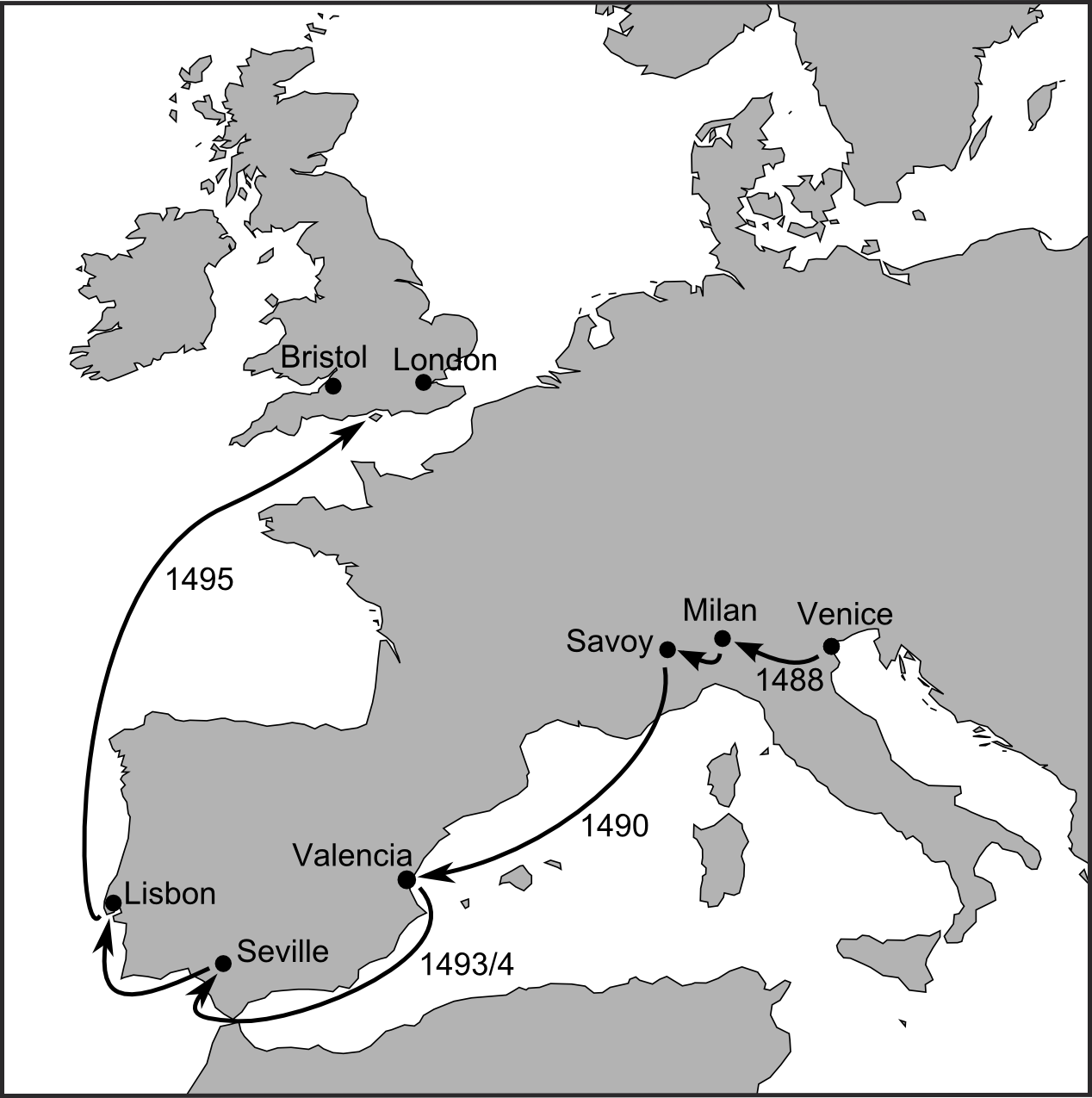 John Cabot's travels around Europe as a fugitive from Venetian justice, following his flight from Venice in November 1488: Evan T. Jones and Margaret M. Condon, Cabot and Bristol's Age of Discovery: The Bristol Discovery Voyages 1480-1508 (University of Bristol, Nov. 2016), fig. 6, p. 27. Free e-book available from the Internet Archive.date=2016-06-01